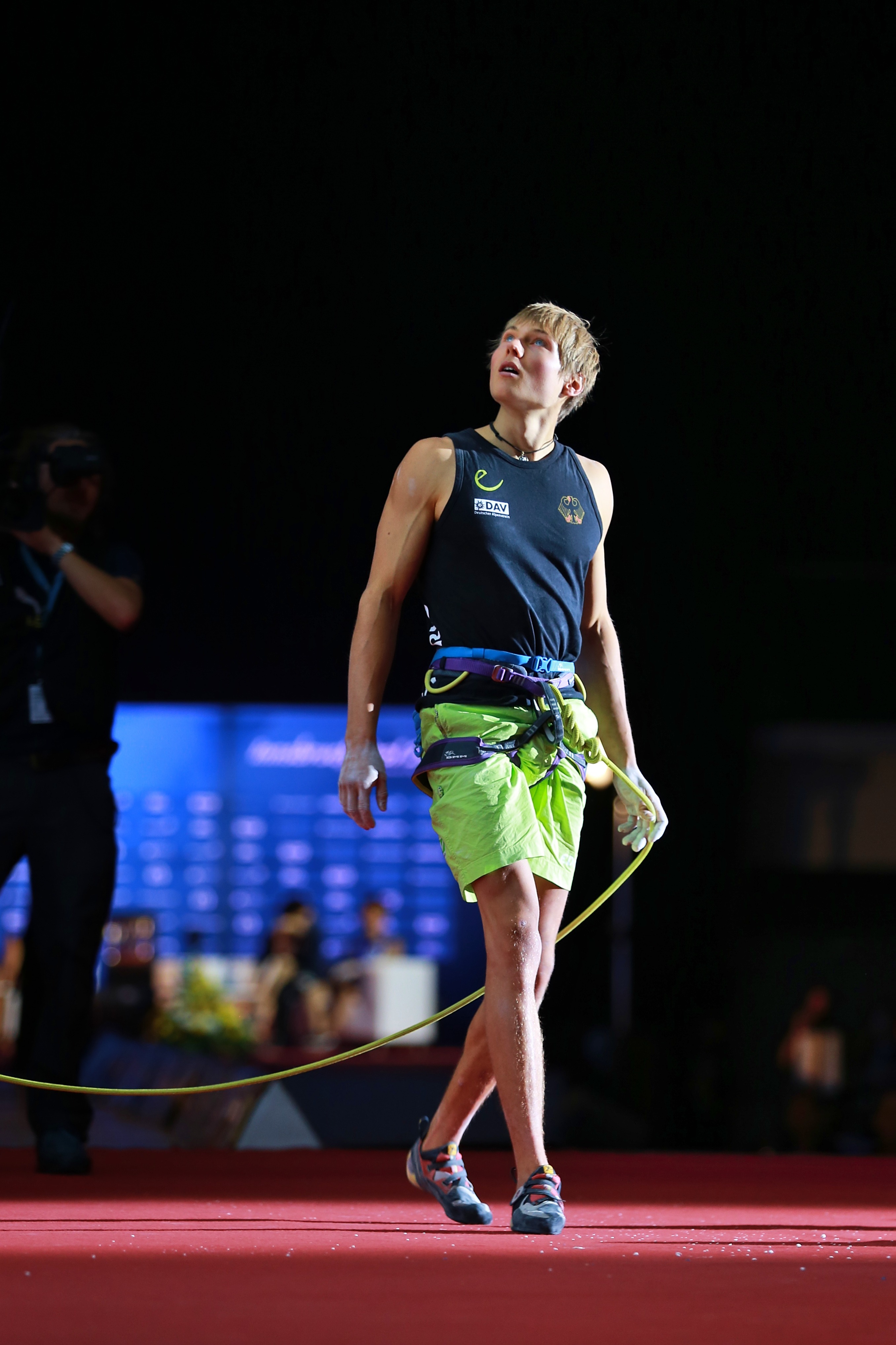 IFSC Climbing World Championships Innsbruck 2018 Final MAN lead 141 MEGOS Alexander GER